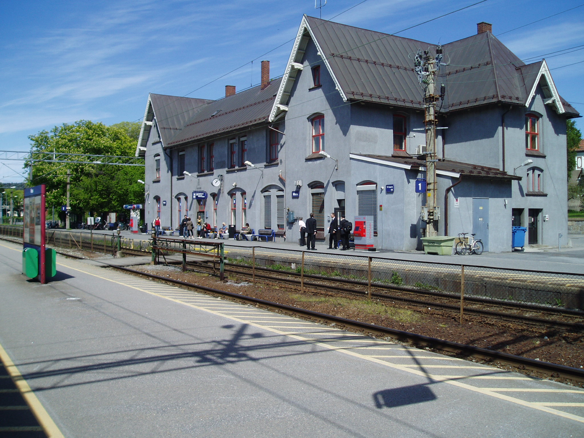 Moss train station in the city of Moss, Norway.